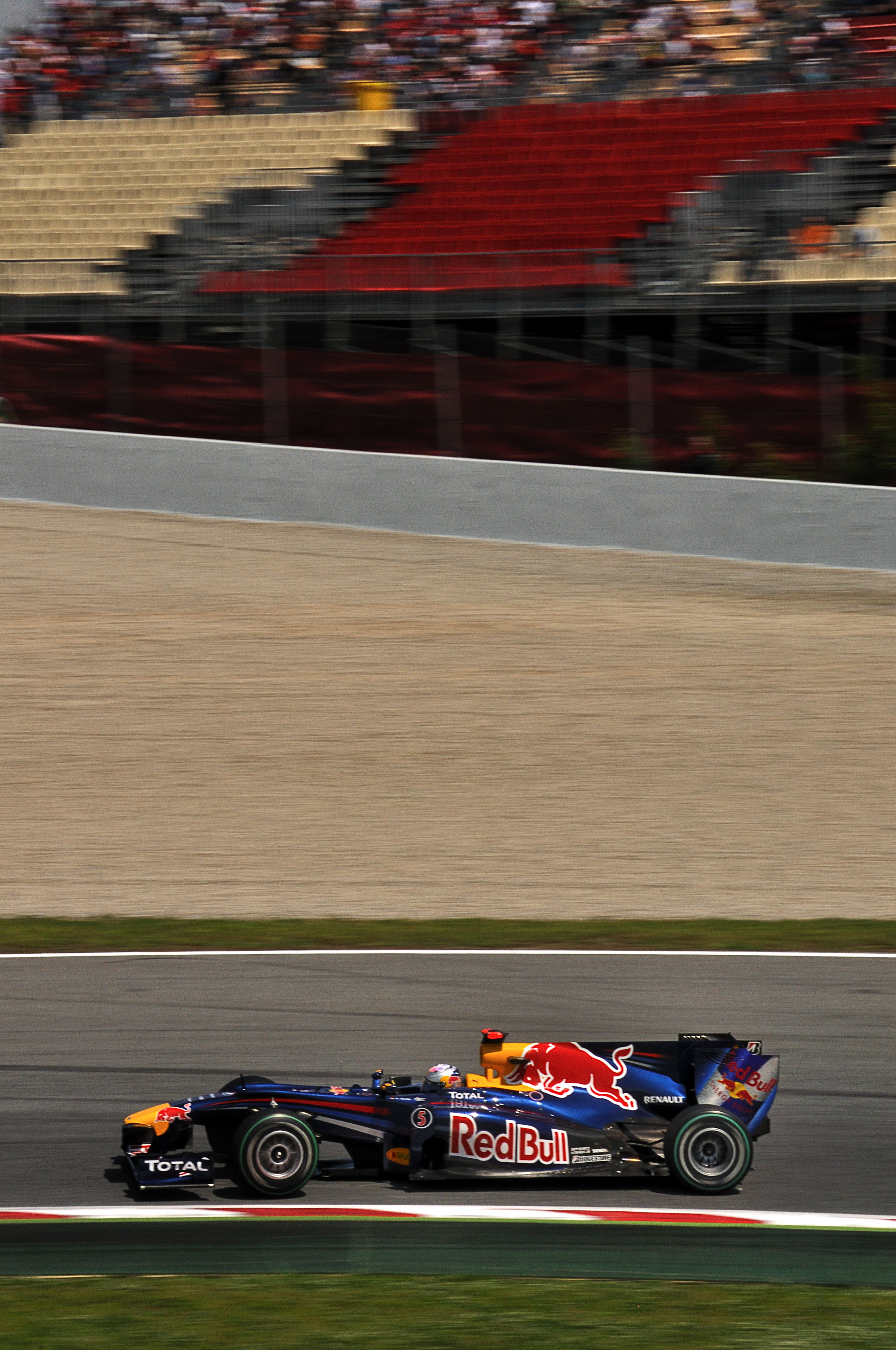 Sebastian Vettel driving for Red Bull Racing at the 2010 Spanish Grand Prix.